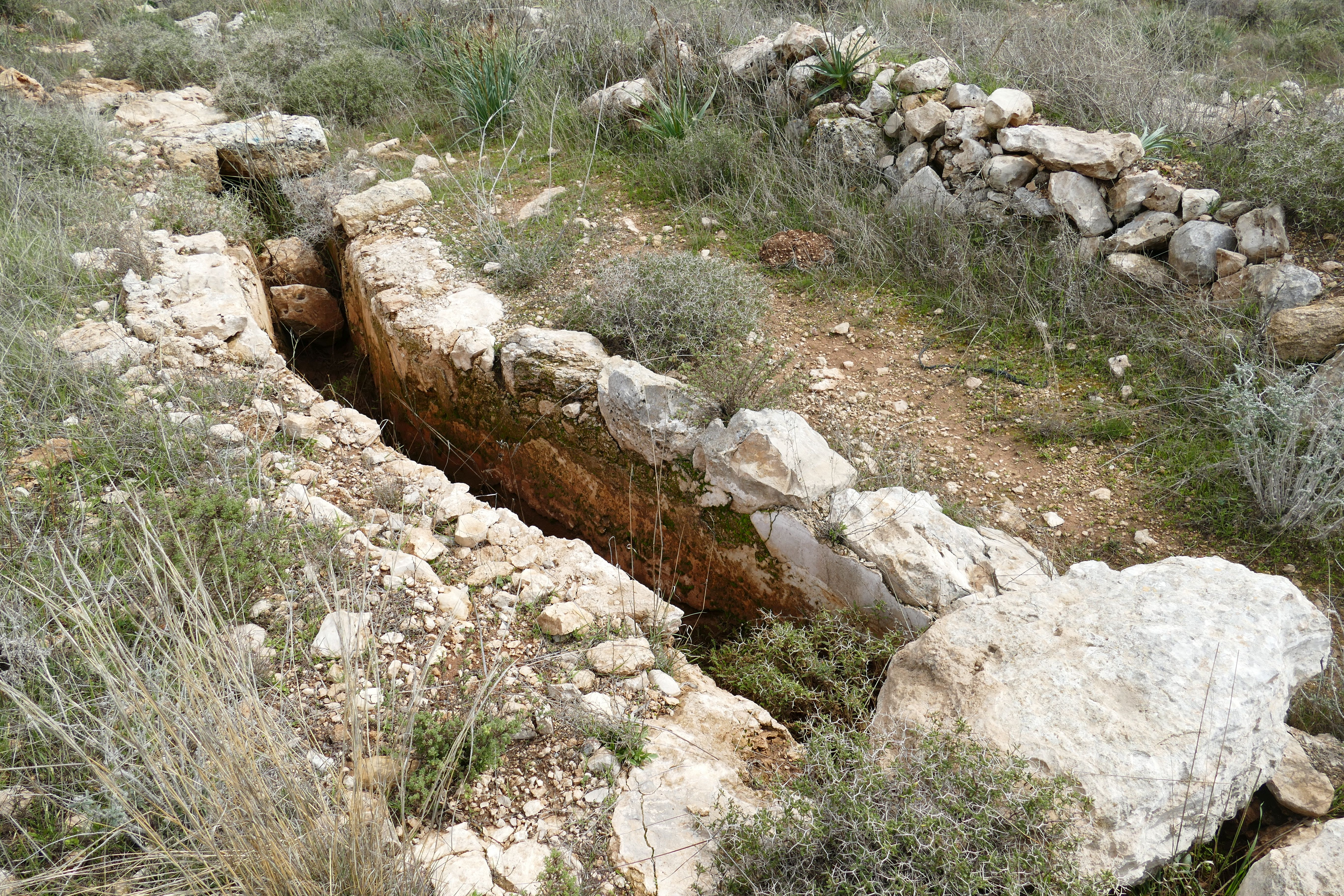 Ancient aqueduct from El-Arub spring to Solomon's pools; east of Efrat, West Bank.